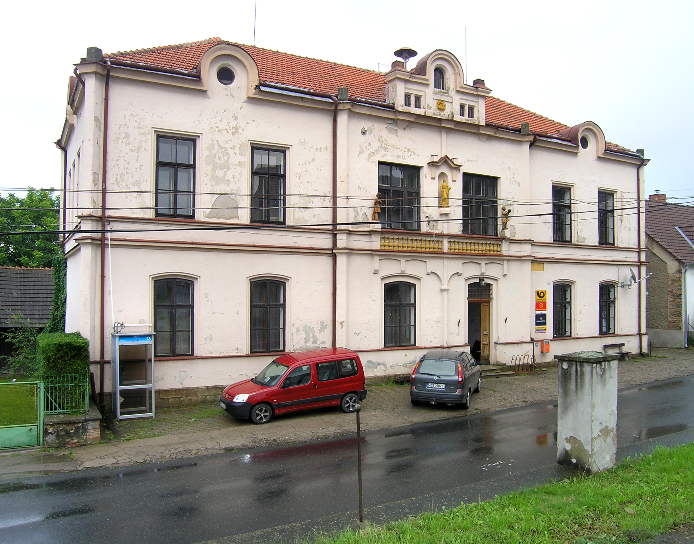 Post office in Žehušice, Czech Republic